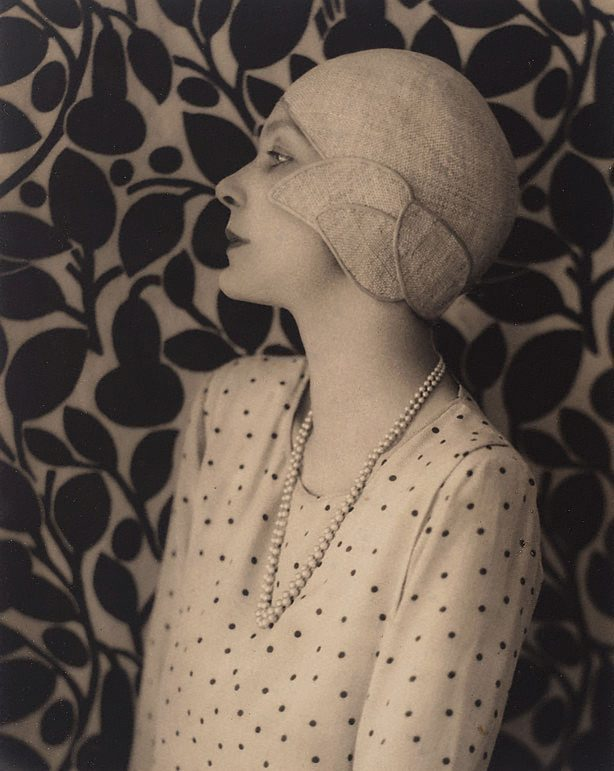 Doris Zinkeisen: New Idea portrait with leaf backgroundDoris Zinkeisen, photographed in 1929 by Harold Cazneaux. This was the first photographic cover for ‘The Home’ magazine (1929, 'The Home', May, in Hill V 2000, 'The Cazneaux women', Craftsman House, Sydney p 73). Cazneaux was its chief photographer. ‘The Home’ was launched in Sydney in 1920 and styled after Vogue. Zinkeisen was said to have epitomised the ‘New Feminine Beauty’ described by ‘The Home’ in 1929 as: ‘stark simplicity of line, of corners, angles, slimness, sharpness … twenty years ago we were born curvy and now we are born straight.’ The leaf background was painted by the Australian artist Adrian Feint. This photograph was one of Cazneaux's 'new idea' series of portraits, which placed subjects against painted backdrops.